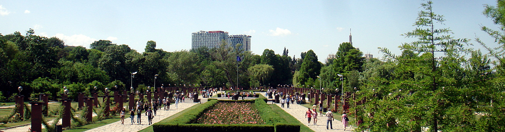 The rosebushes alley in Herăstrău Park, Bucharest, with the Monument of the founding fathers of the European Union in the center